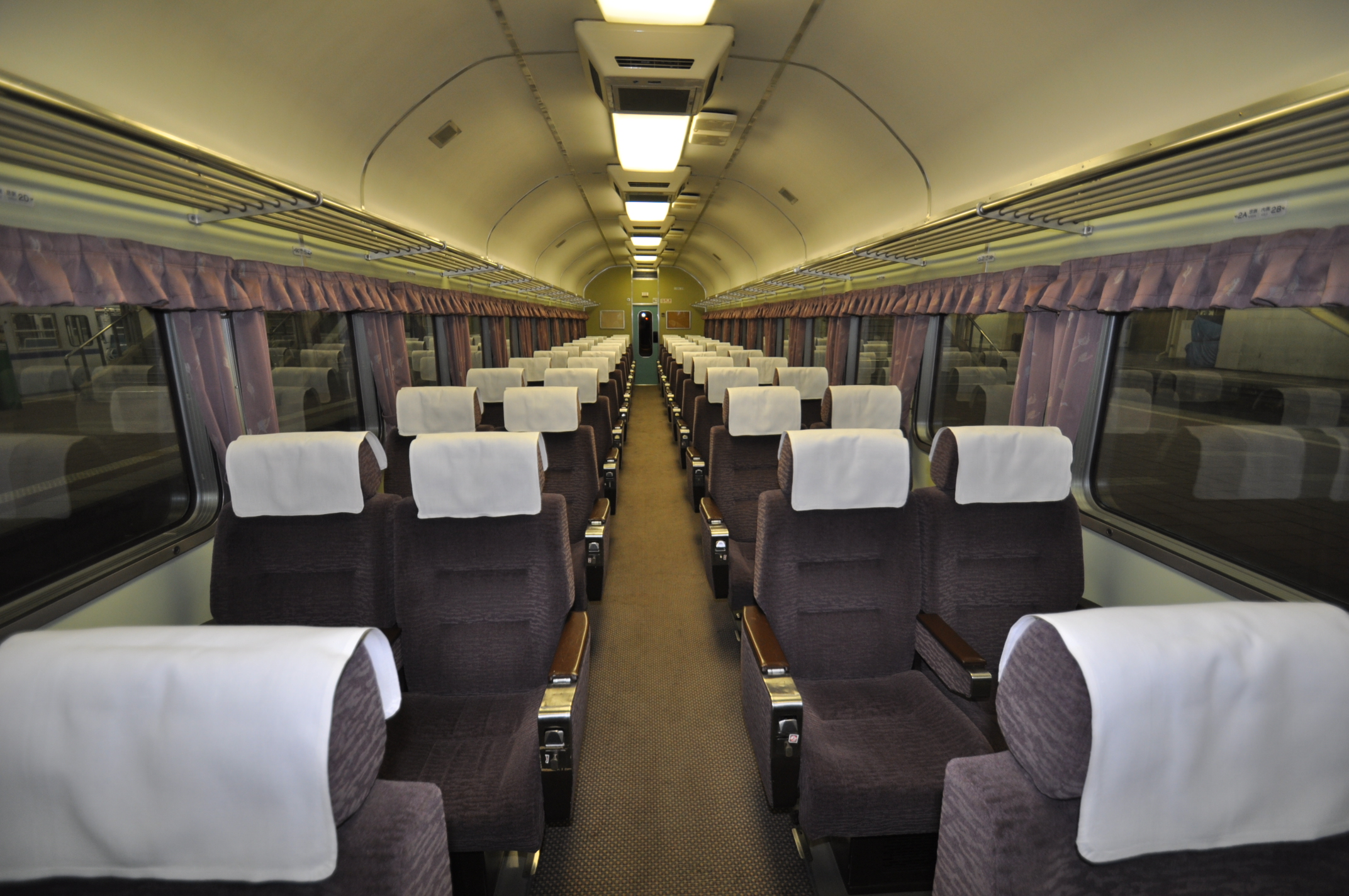 Interior of a 583 series SaRo 581 "Green" (first class) seating car on a JR West Kitaguni overnight express service